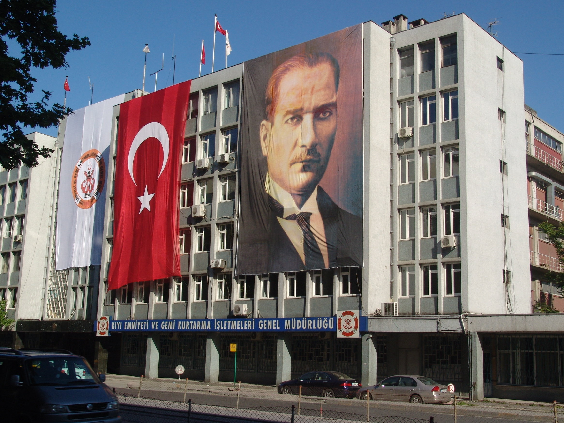 Istanbul